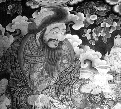 Güshi Khan fresco at Jokhang, Tibet autonomous region in People Republic of China.